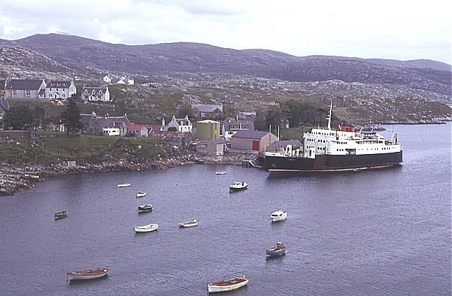 Tarbert. The CalMac ferry MV Hebrides at the pier of Tarbert, Isle of Harris.